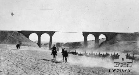 Ottoman Empire: Palestine. Sheria railway bridge destroyed by Yildirim Army Group.